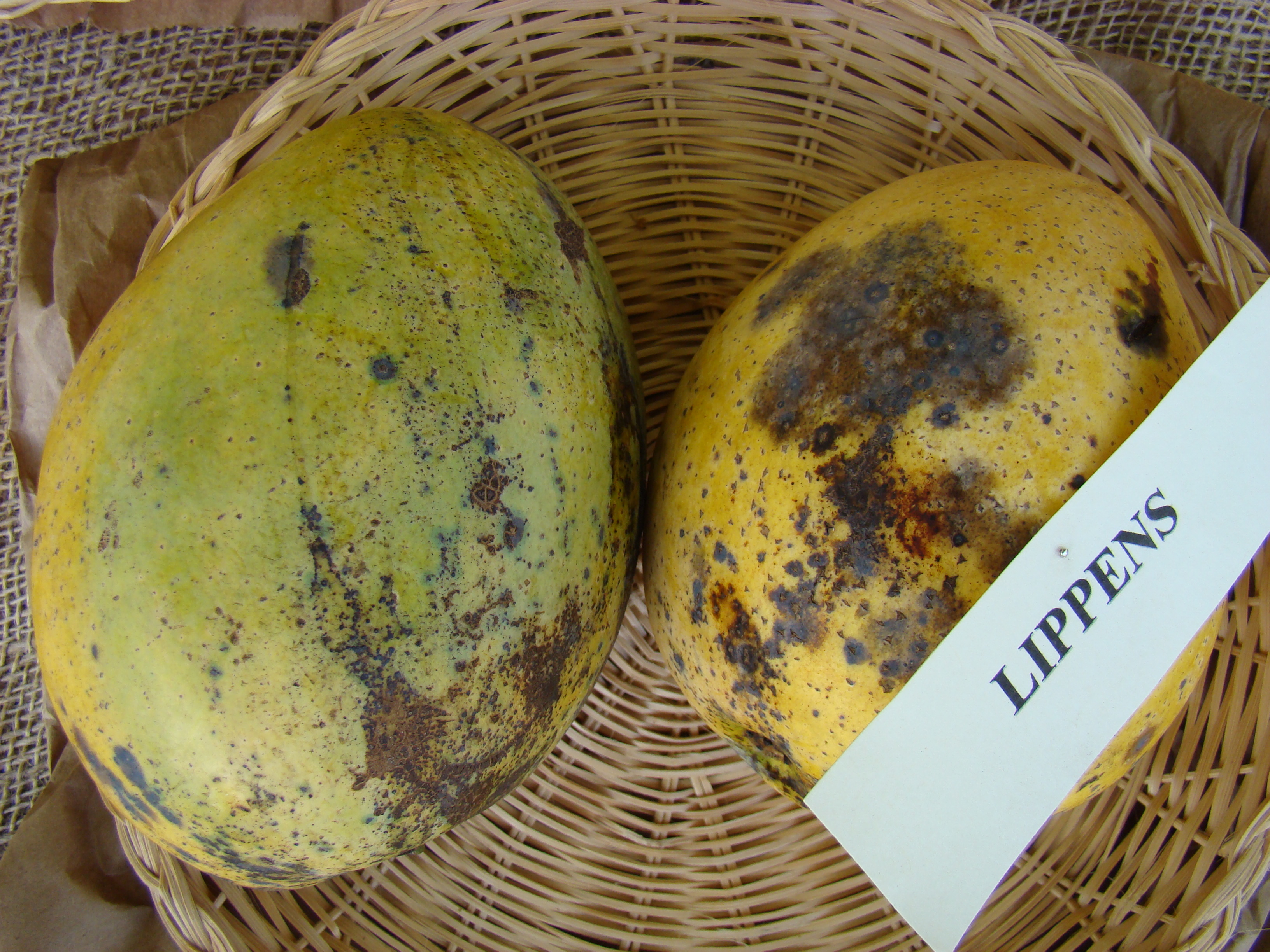 This is a photo of the display of Lipens mango at the Redland Summer Fruit Festival, Fruit & Spice Park, Homestead, Florida.